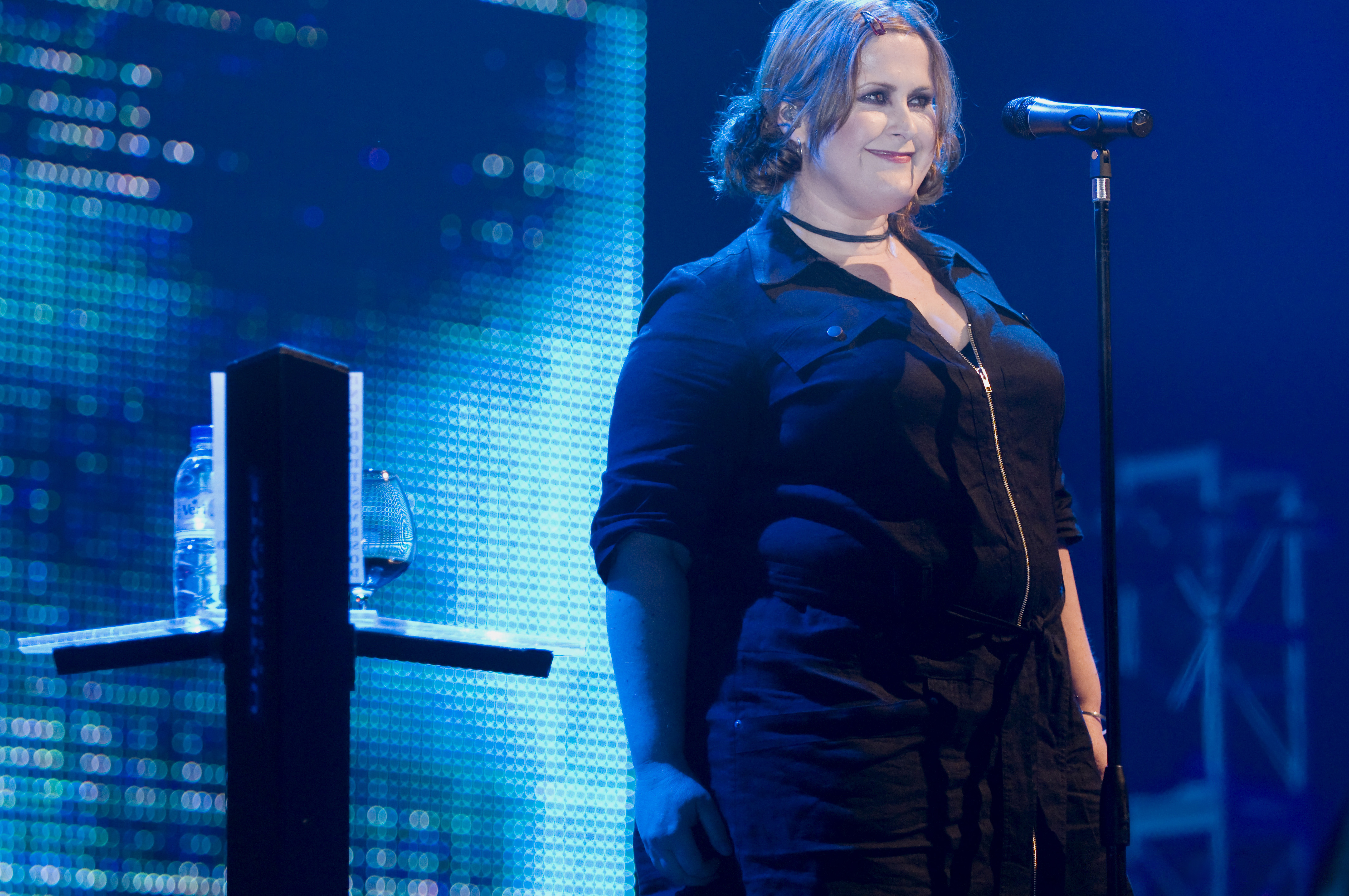 Alison Moyet of Yazoo (band).